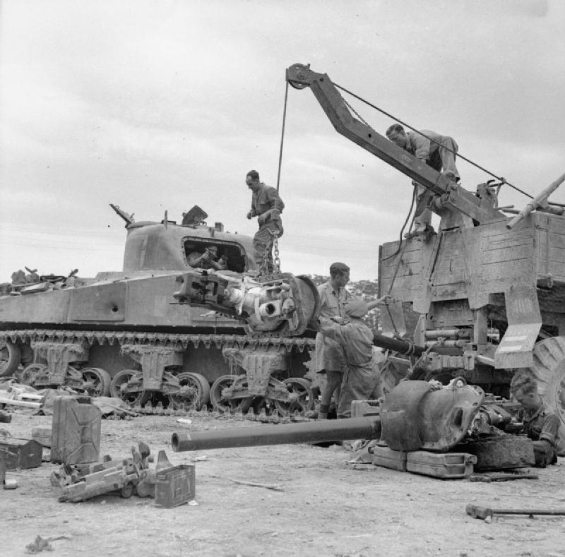 The British Army in Italy 1944 A 75mm gun being salvaged from a knocked-out Sherman tank at 26th Armoured Brigade workshops in Perugia, 30 June 1944. The entry point for an 88mm shell can be seen on the side of the tank's hull.